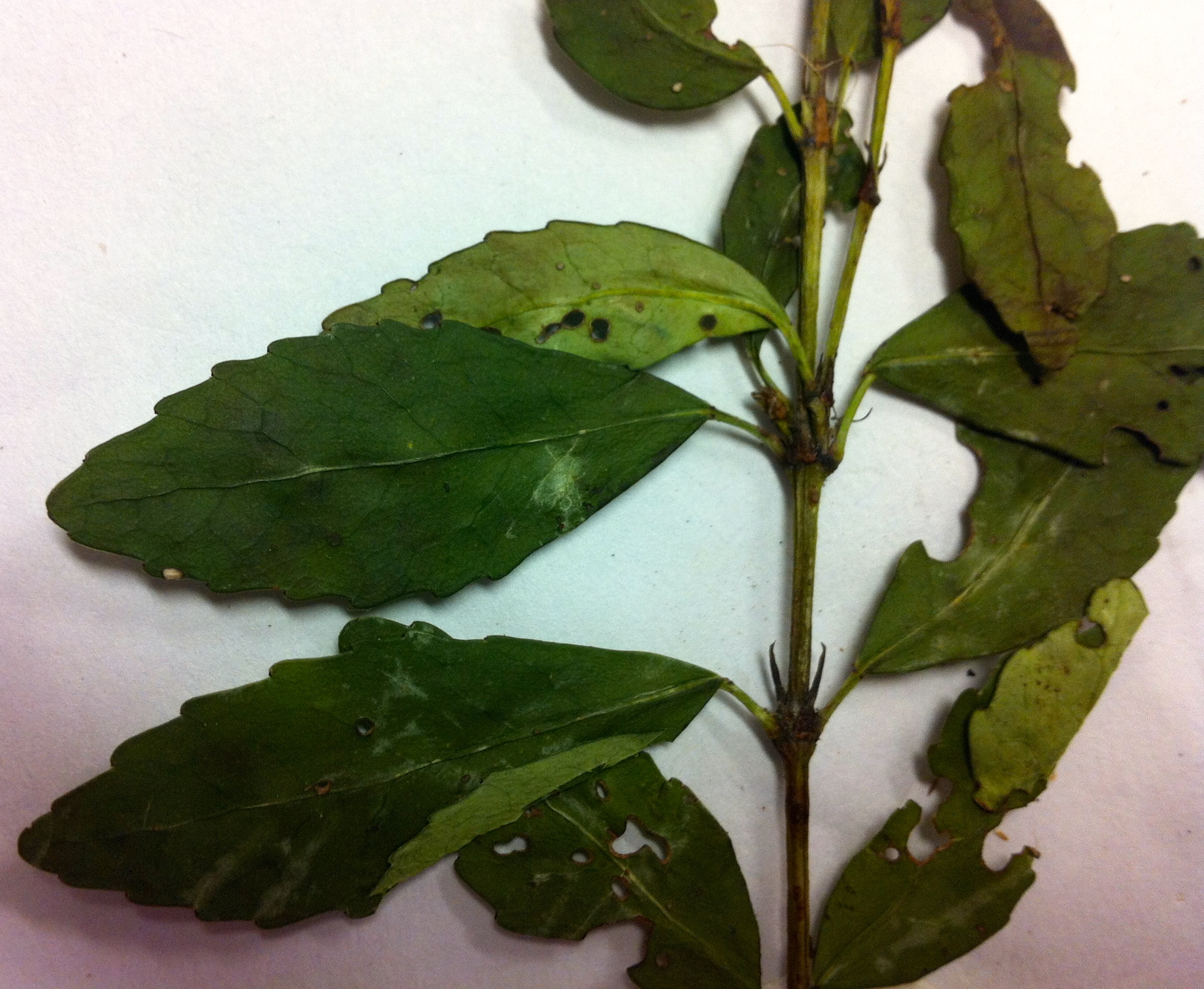 Anodopetalum biglandulosum leaves are narrow, elliptical to ovulate in shape ending with a blunt point and serrates margins.